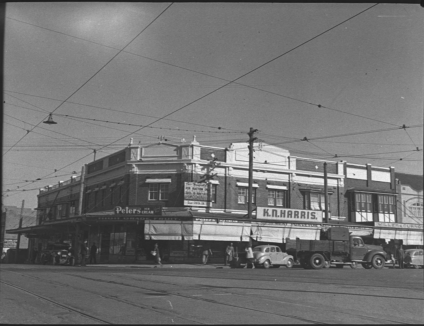 Maloney's Corner, Kingsford (taken for L.J. Hooker Ltd.)